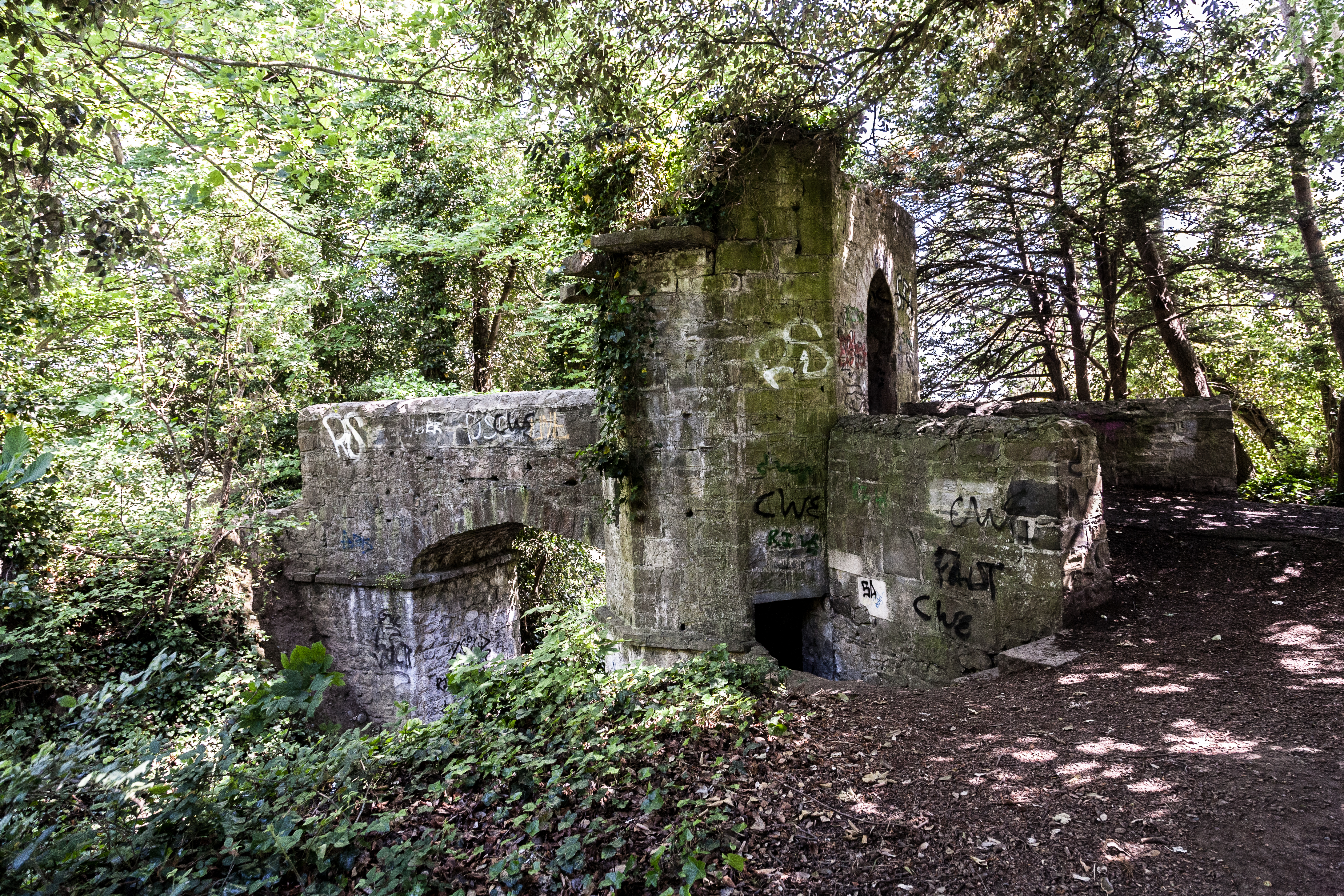 Bridge over the Naniken River in Saint Anne's Park, Dublin.